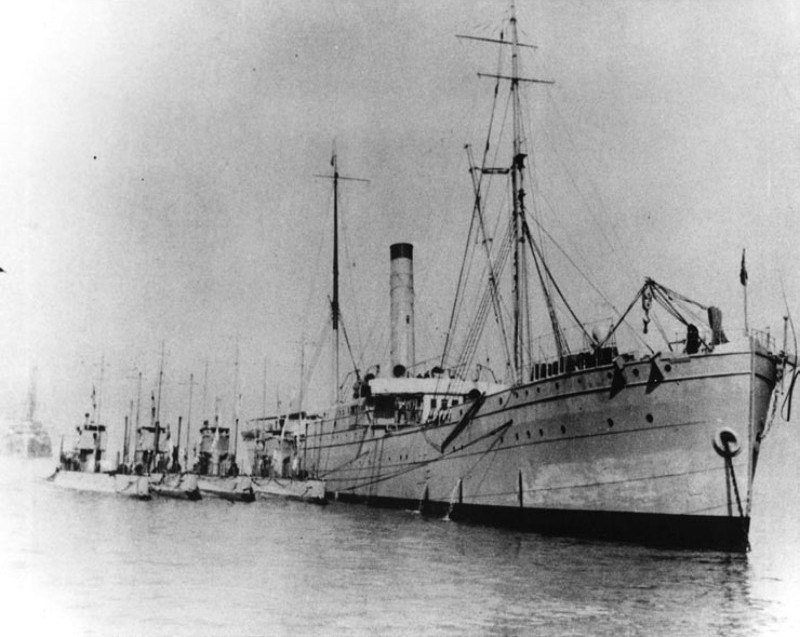 USS Iris at anchor with four submarines alongside, circa 1913-1916. An armored cruiser is in the left distance.